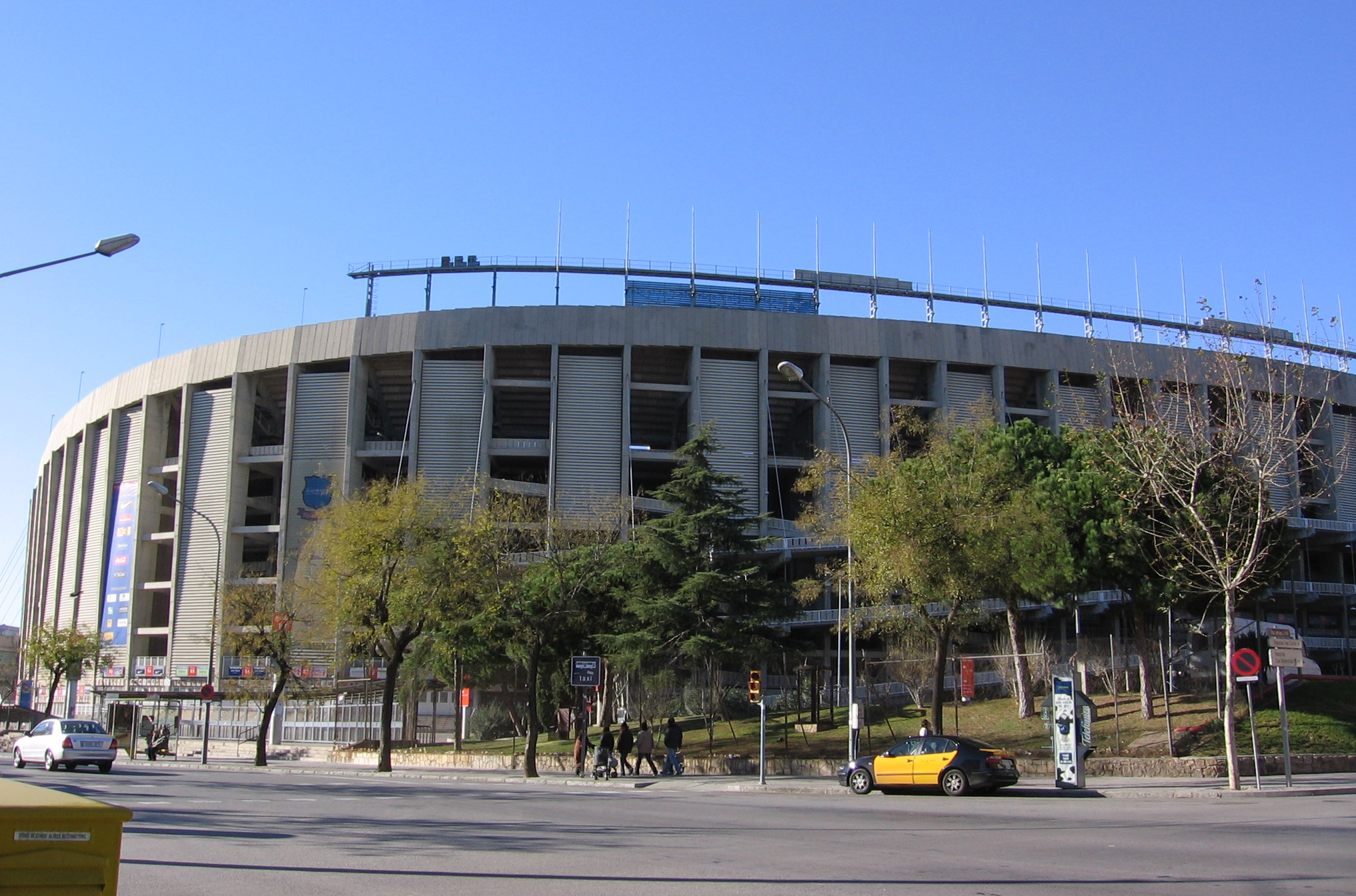 The Football Club Barcelona Stadium "Camp Nou"